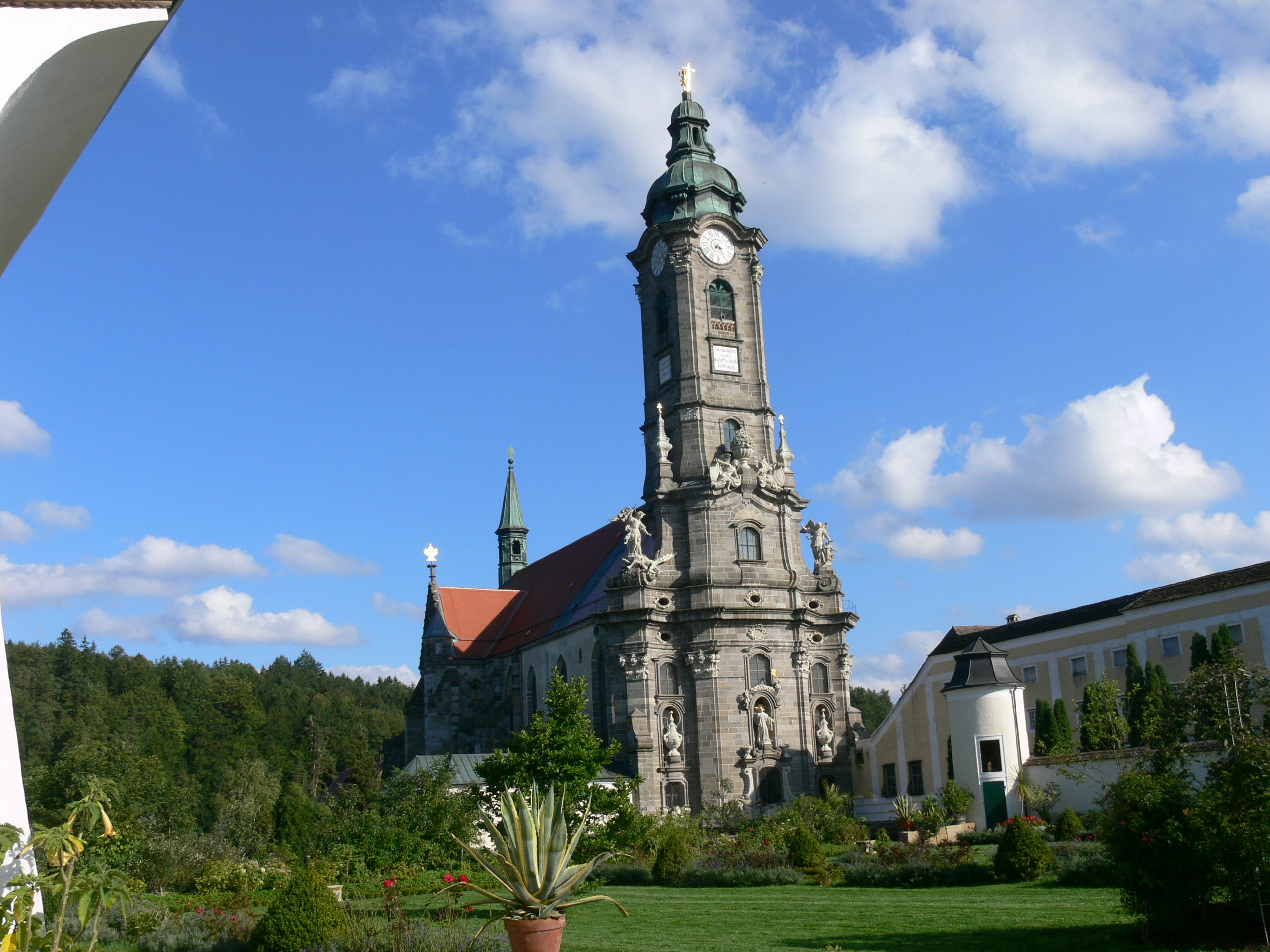 Zwettl abbey church "Ascension of Mary"( 1722) by Joseph Mungenast.